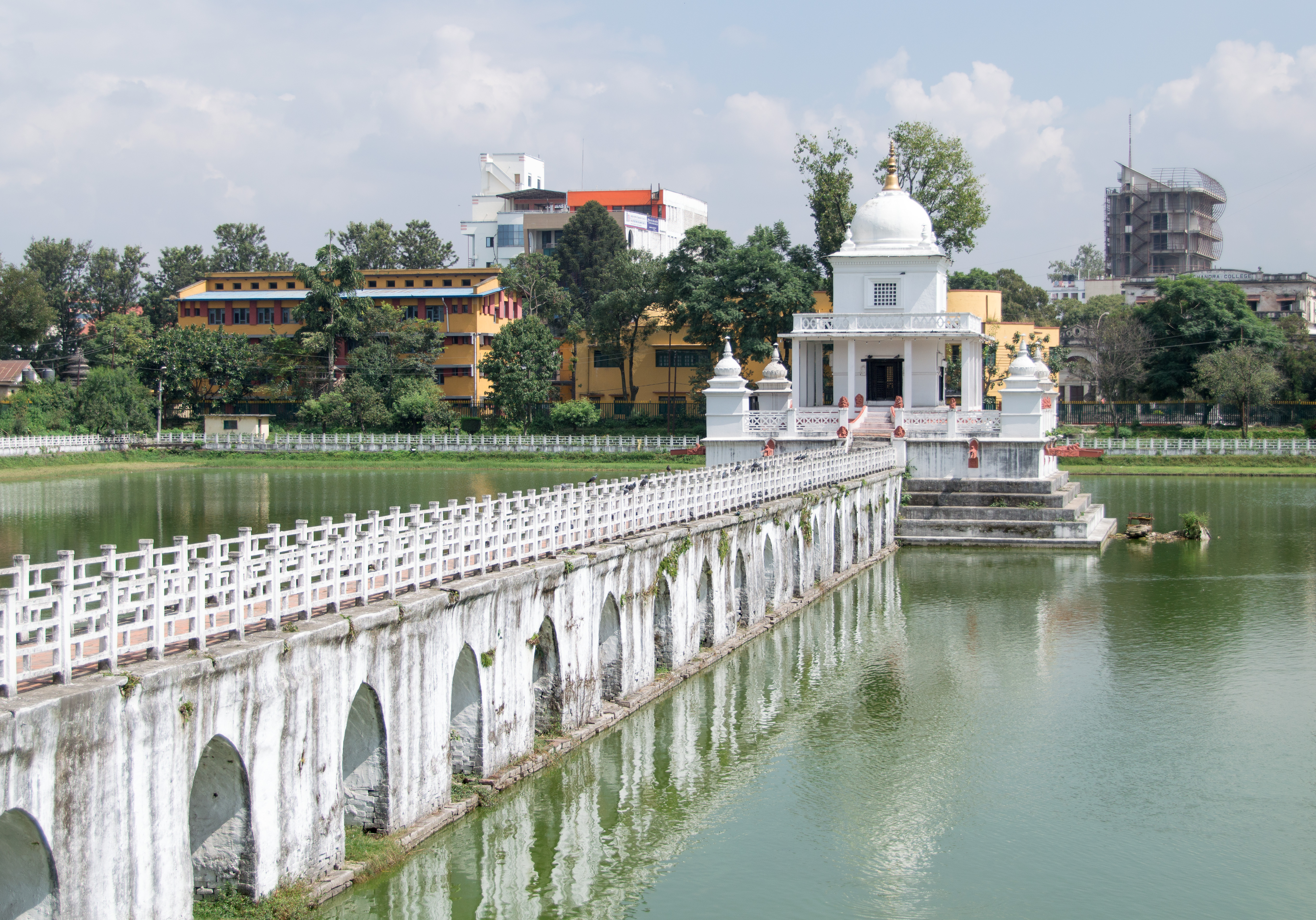 Rani-Pokhari pond in Kathmandu